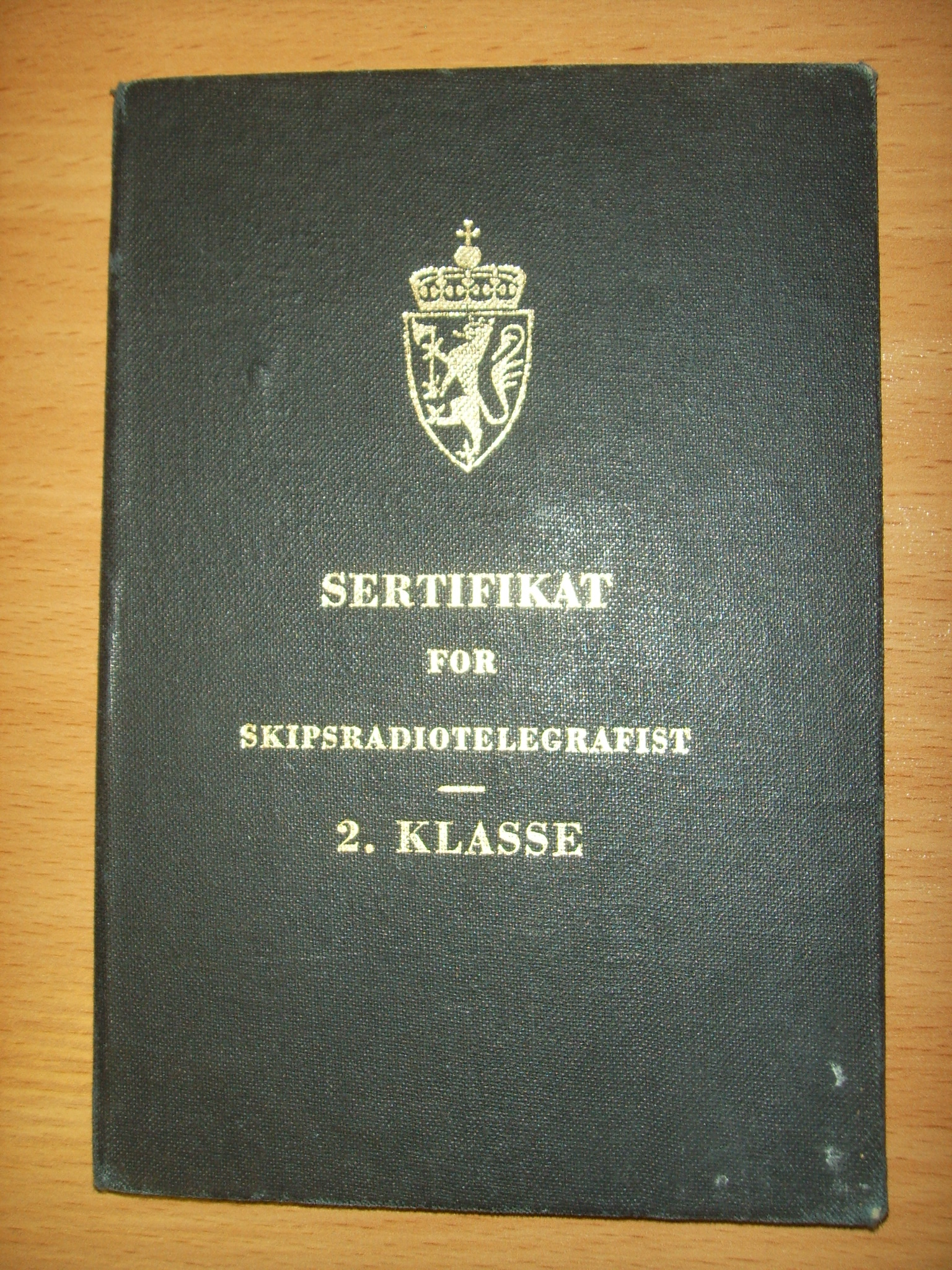 Front cover of a Norwegian Second Class Radiotelegraph Operator's Certificate and Radiotelephone Operator's Certificate, issued 1982.